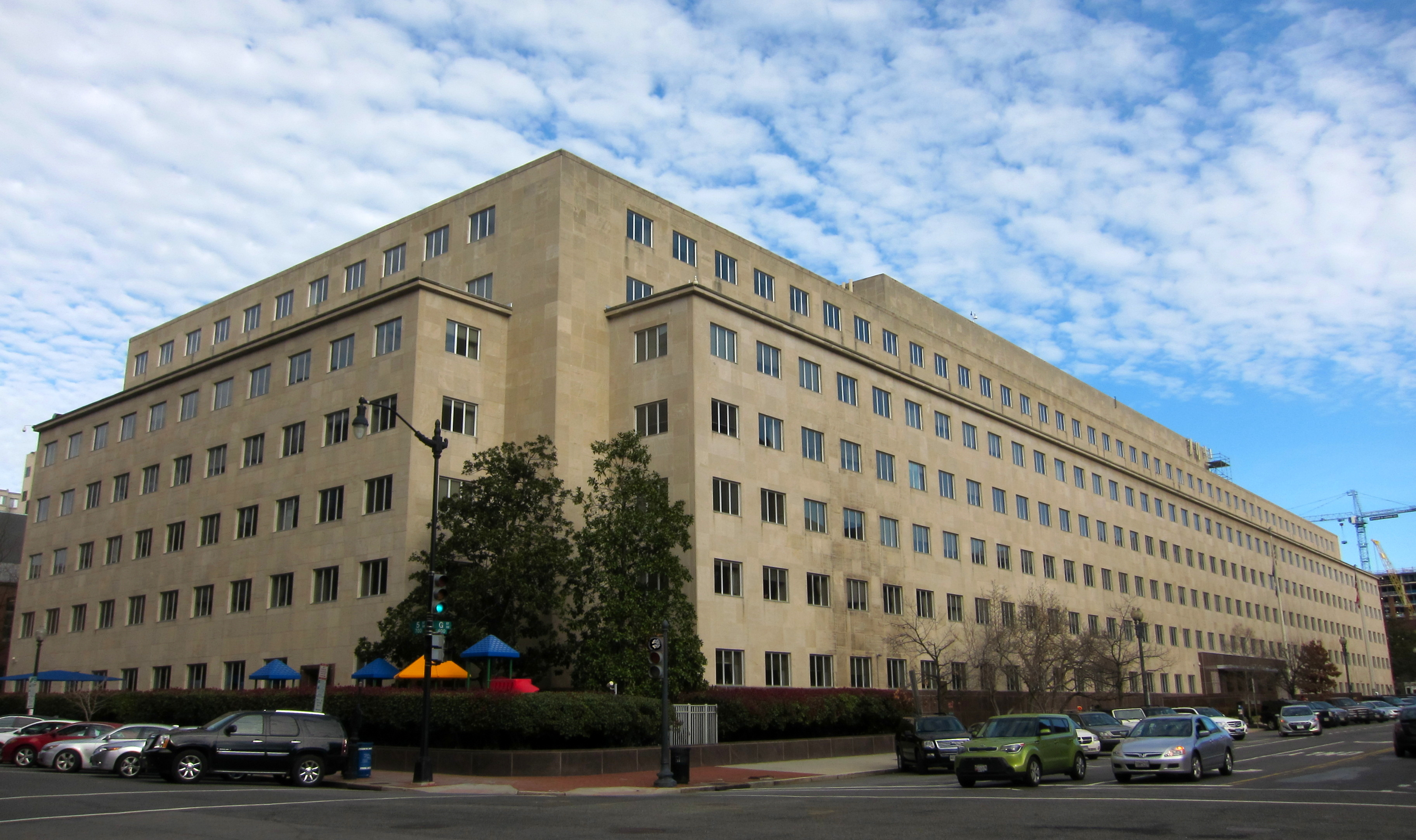 The General Accounting Office Building is the headquarters of the U.S. Government Accountability Office. It is located at 441 G Street NW in Washington, D.C.